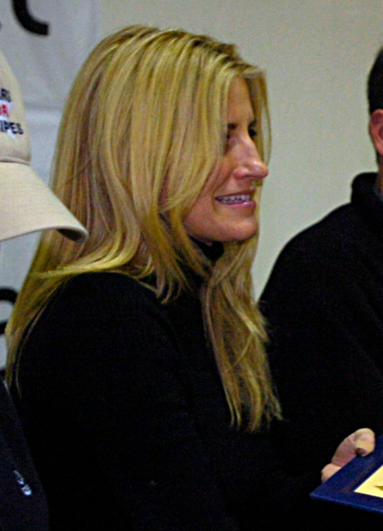 Sgt. Maj. William Calhoun, operations sergeant major for the 4th Stryker Brigade Combat Team, 2nd Infantry Division, from Fort Lewis, Wash., presents comedian Alex Kapp Horner with an appreciation award after her performance at Forward Operating Base Warhorse, Iraq, Dec. 29.